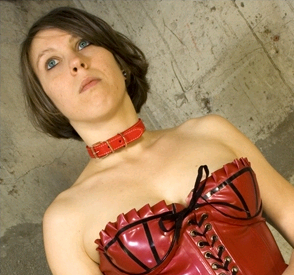 Marine is wearing a latex corset from Honour, a Red latex skirt from eBay, and just one Sansha Futura 911 pointe shoe. The idea of this set was to show Marine's double faces, the ballerina & the fetish girl. Enjoy :-)